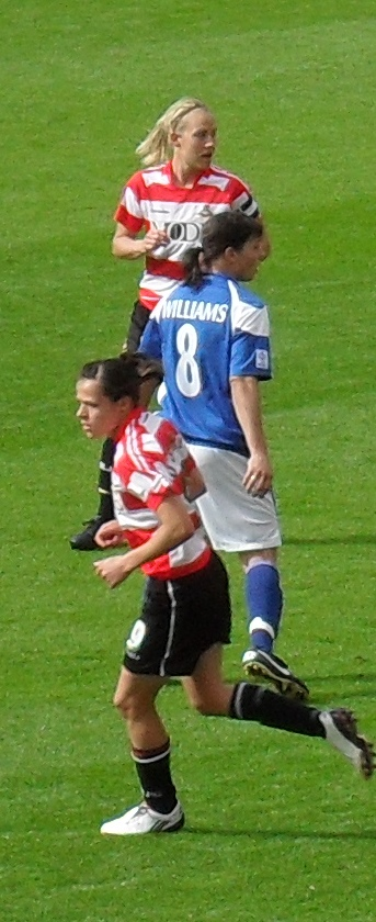 Rachel Williams of Birmingham City LFC (centre) between Katie Holtham (top) and Aine O'Gorman of Doncaster Rovers Belles LFC